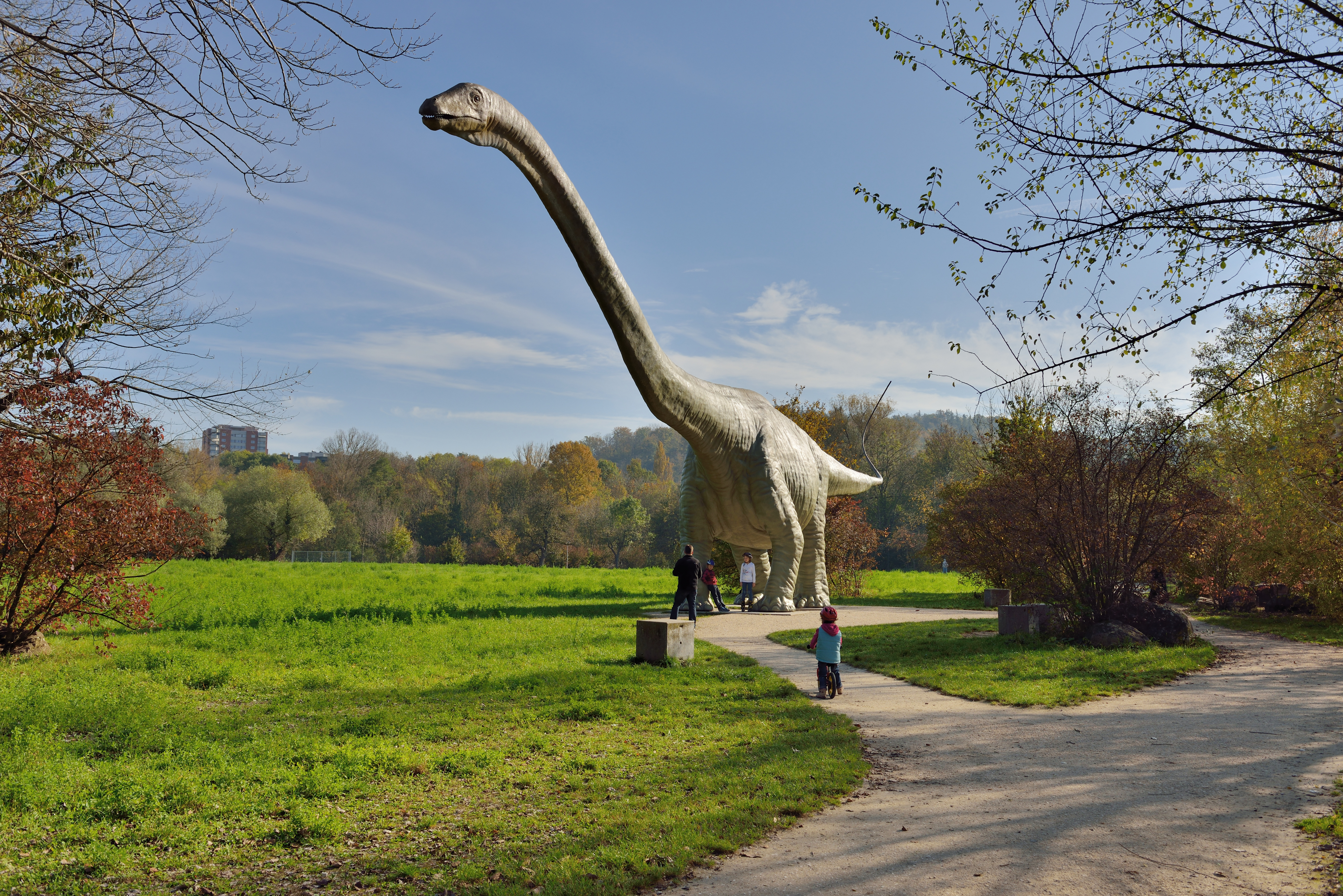 Dinosaur at Grün 80